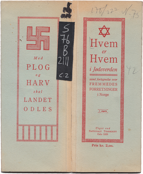 Who's Who in the Jewish World, 1939 (3rd.ed.) By Mikal Peder Olaus Johannessen Sylten. Softcover. 96 pages. Printed as an attache to the author's antisemitic periodical Nationalt Tidsskrift (1916-1945). Contained a list of Jews or presumed Jews in Norway sorted by occupation. Housewives and children were listed under "different occupations." First edition was printed in 1925.